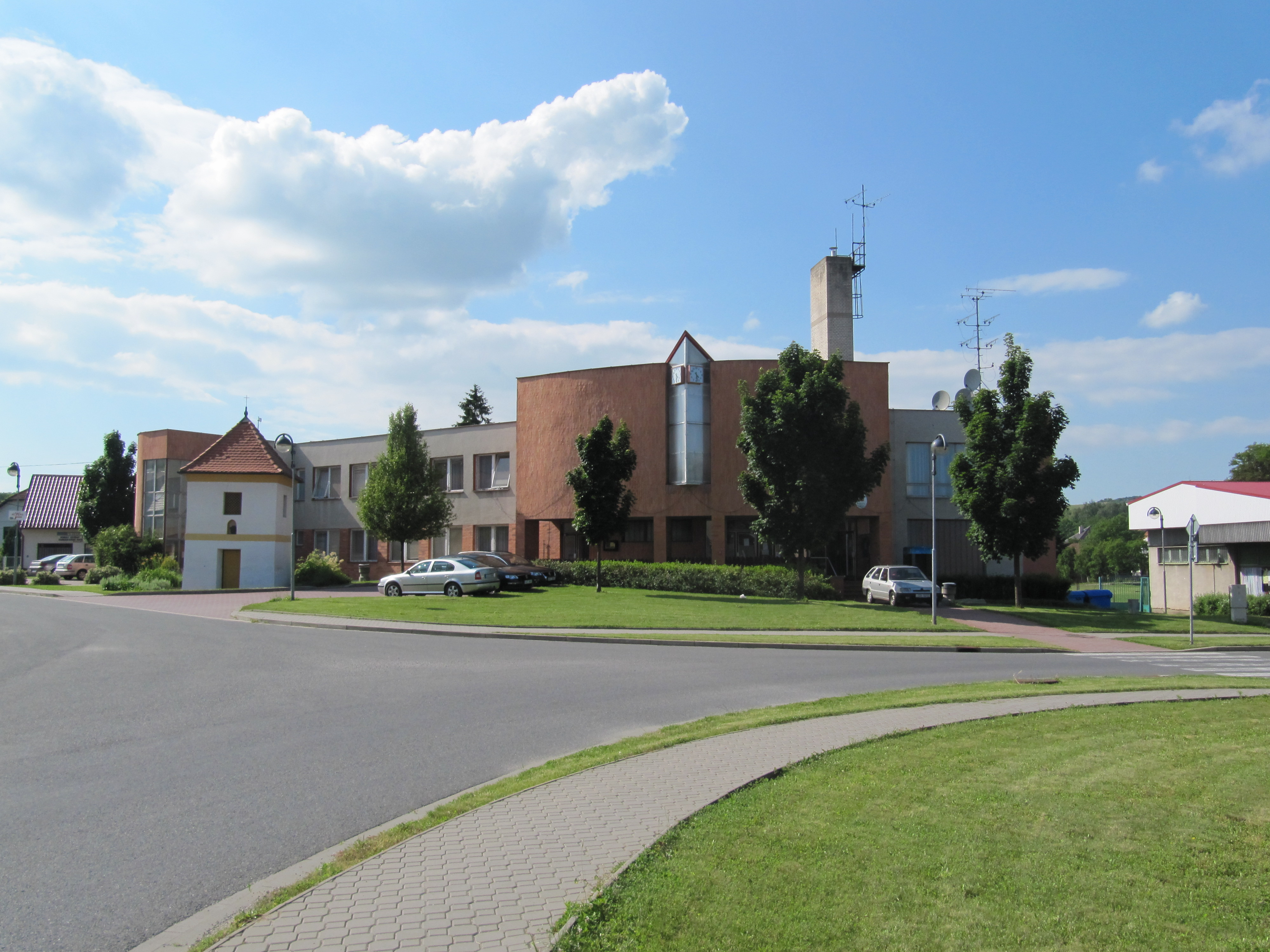 Traplice in Uherské Hradiště District, Czech Republic. Center of the village with municipal office and belfry.